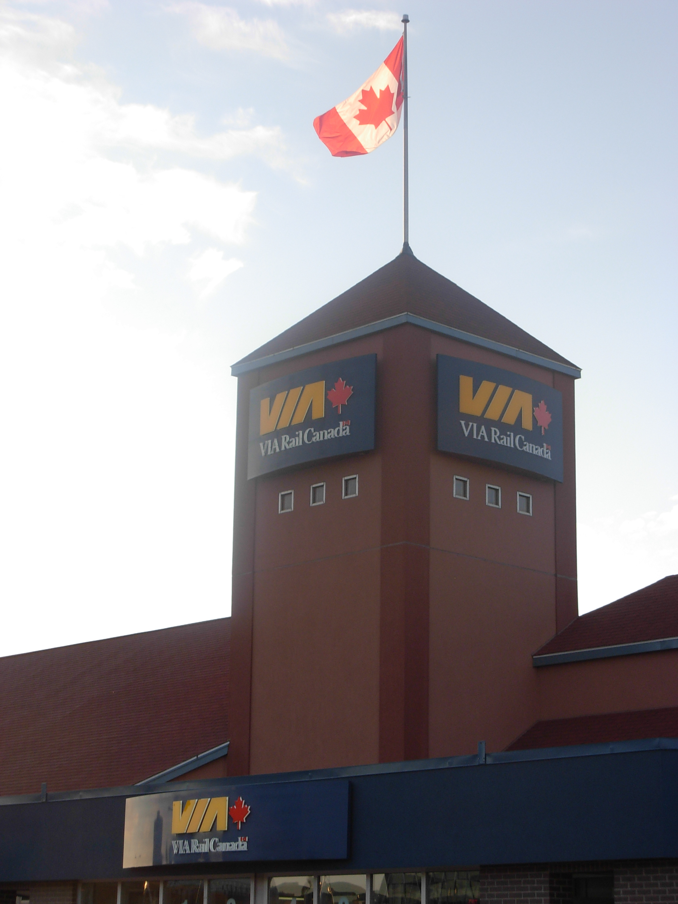 Via rail station in Moncton